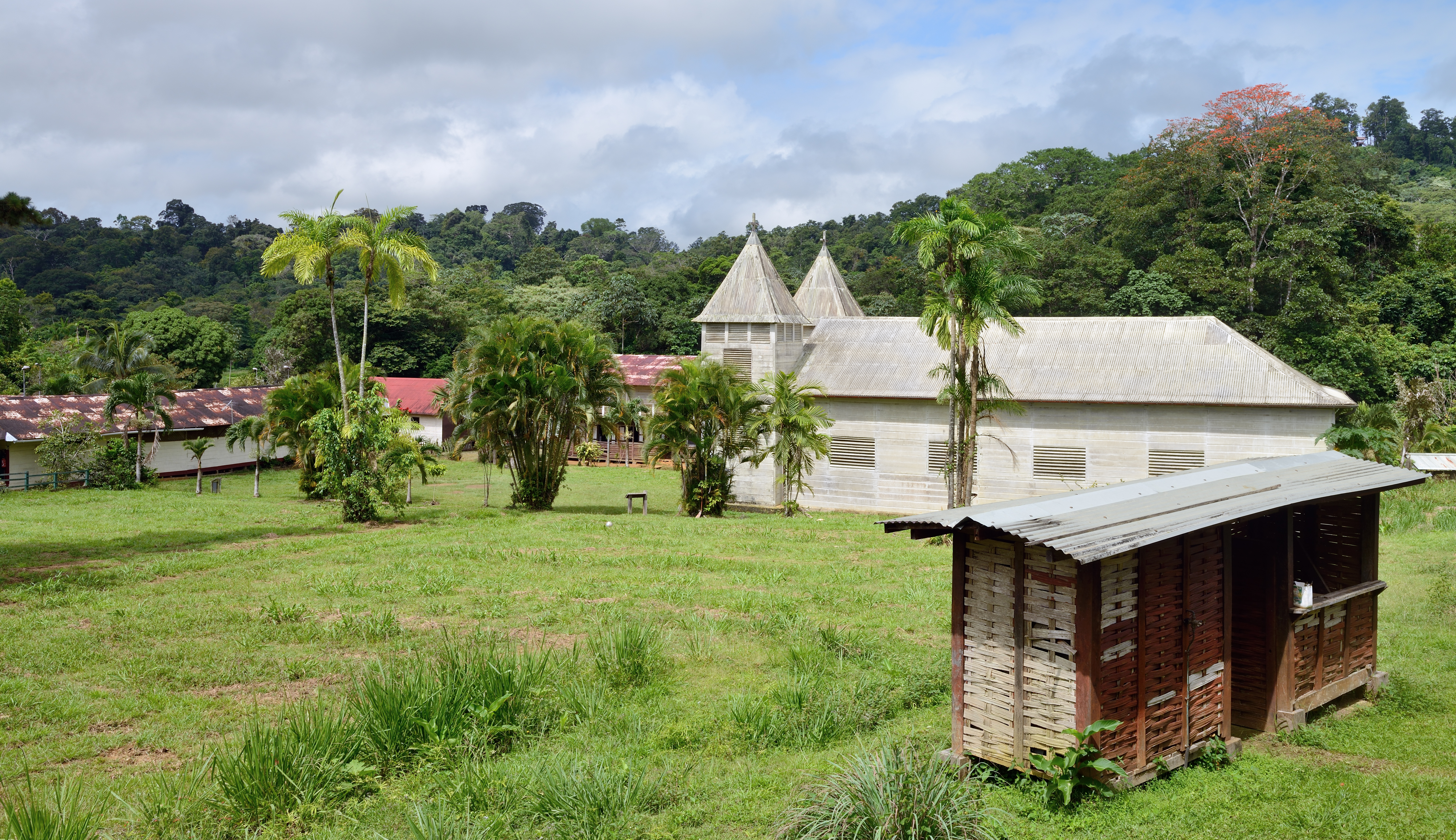 Central place at Saül, French Guiana.